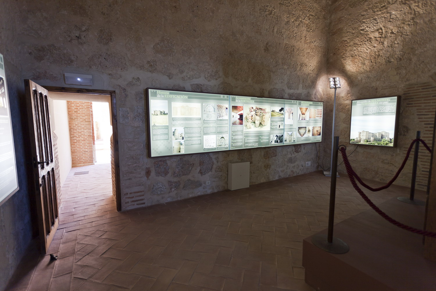 Castillo de Belmonte - Sala de la Restauración